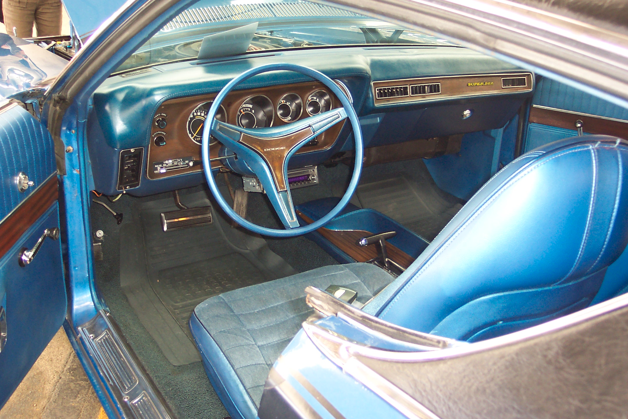 1971 Dodge Charger Super Bee coupe interior. Taken at the 2005 New South Wales All Chrysler Day, held at Fairfield Showground, Prairiewood, Sydney.